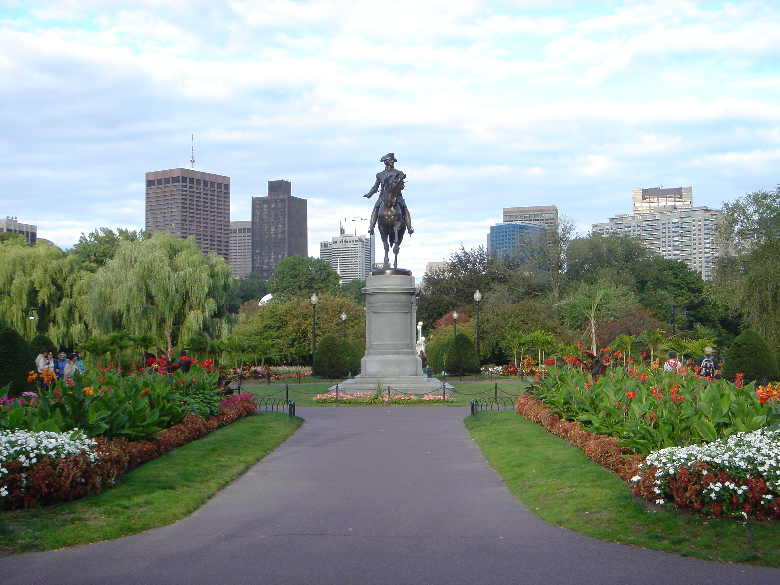 The Boston Public Garden looking east from the Arlington Street entrance, with the skyline of Boston's financial district. For more information, see the article Public Garden (Boston, Massachusetts) on the English Wikipedia.